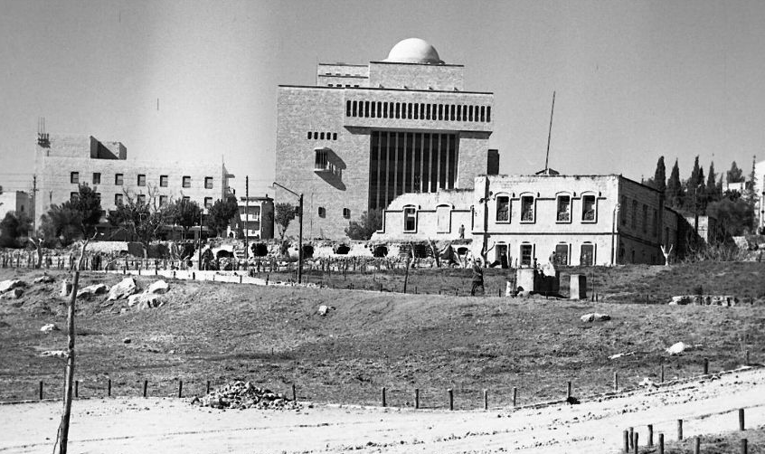 ruins of redemption hotel, aka "house of the 144.000" after the biblical verse Revelation 7:4 ("And I heard the number of the sealed, 144,000, sealed from every tribe of the sons of Israel:"), built by Jeanne Merkus. In the back can be seen Heichal Shlomo, the seat of the chief rabbinate, which was completed in 1958 and left the "Prima Kings" Hotel.